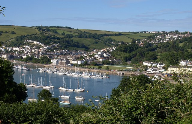 Dartmouth from Hoodown (2). Like 1367518, taken from Kingswear Footpath 30 but from much further north. Right of centre is Coronation Park; left of the flats on North Embankment, trees mark Royal Avenue Gardens. Townstal climbs the valley behind.